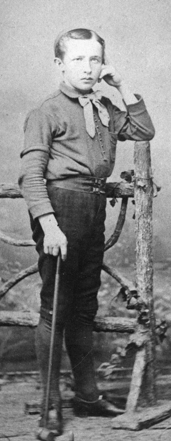 William Laurel Harris, portrait of the artist as a boy, Windsor, Vermont